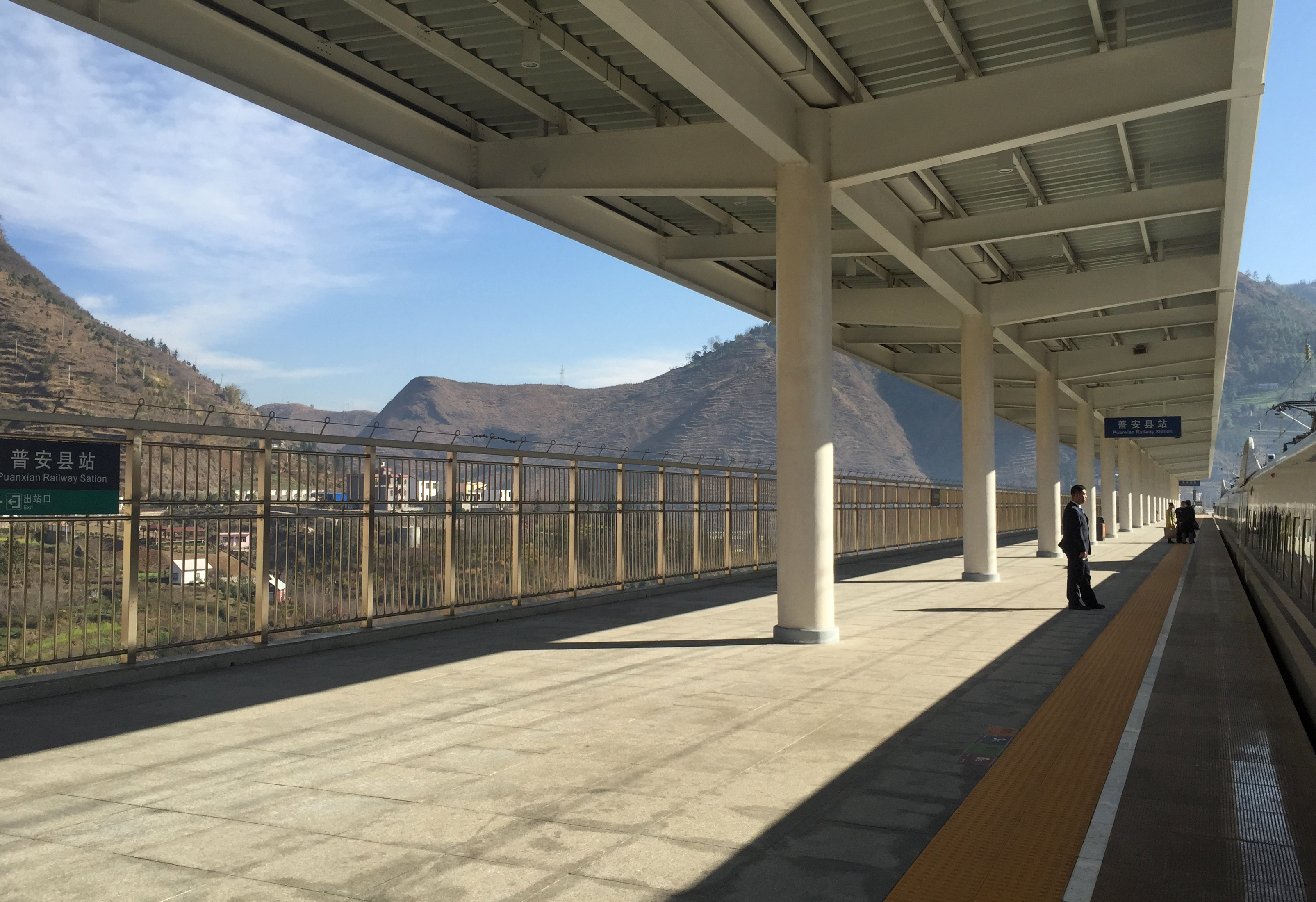 Taken from G2888 during its stopover. The sign says "Puanxian" for sure.